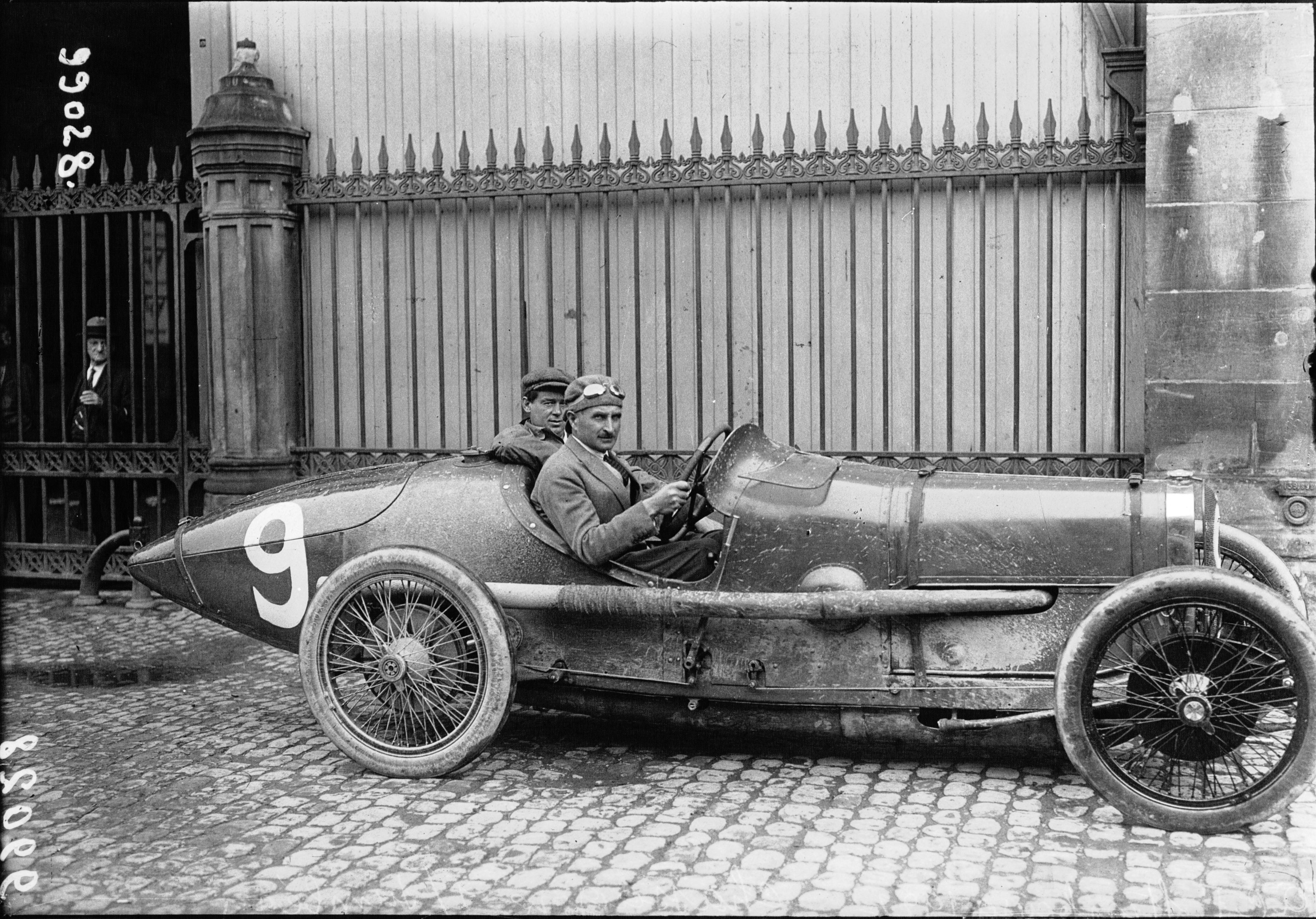 Jean Chassagne at the 1922 French Grand Prix